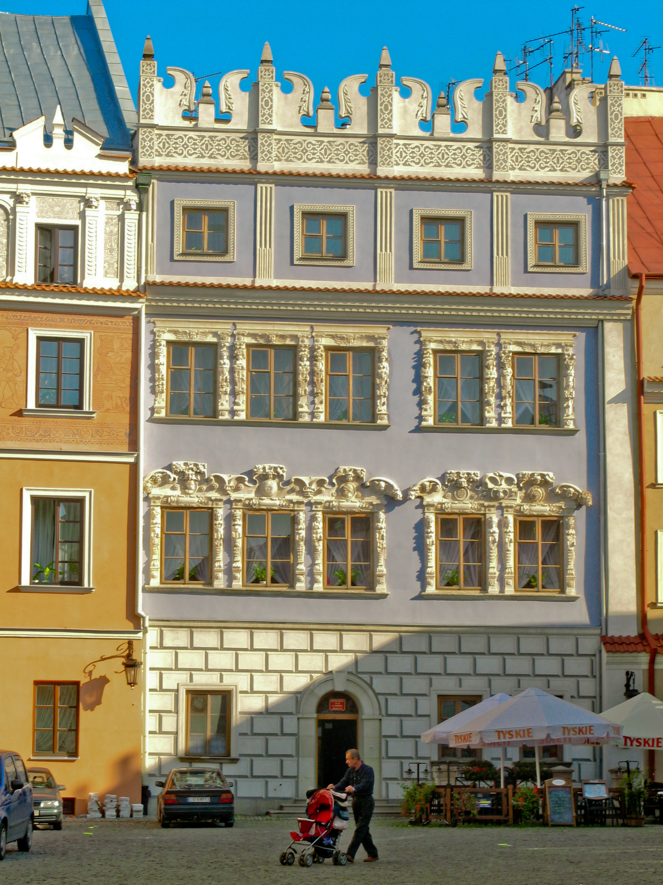 Konopnica's tenement house in Lublin Old Town